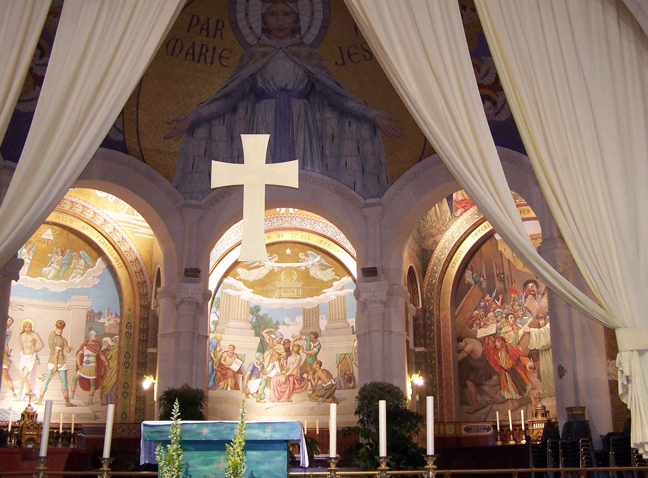 View of the Sanctuary (altar area) of the Rosary Basilica in the Sanctuary of Our Lady of Lourdes, France. The side chapels depict the Sorrowful Mysteries. All permanent mosaics were complete by the time of the consecration of the basilica in 1901. Kodak DX6490 digital camera.